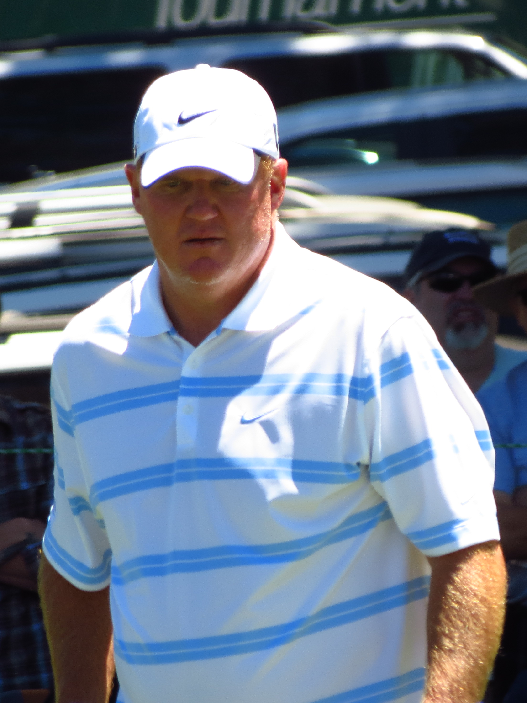 An image of Billy Joe Tolliver at a celebrity golf tournament in 2011.